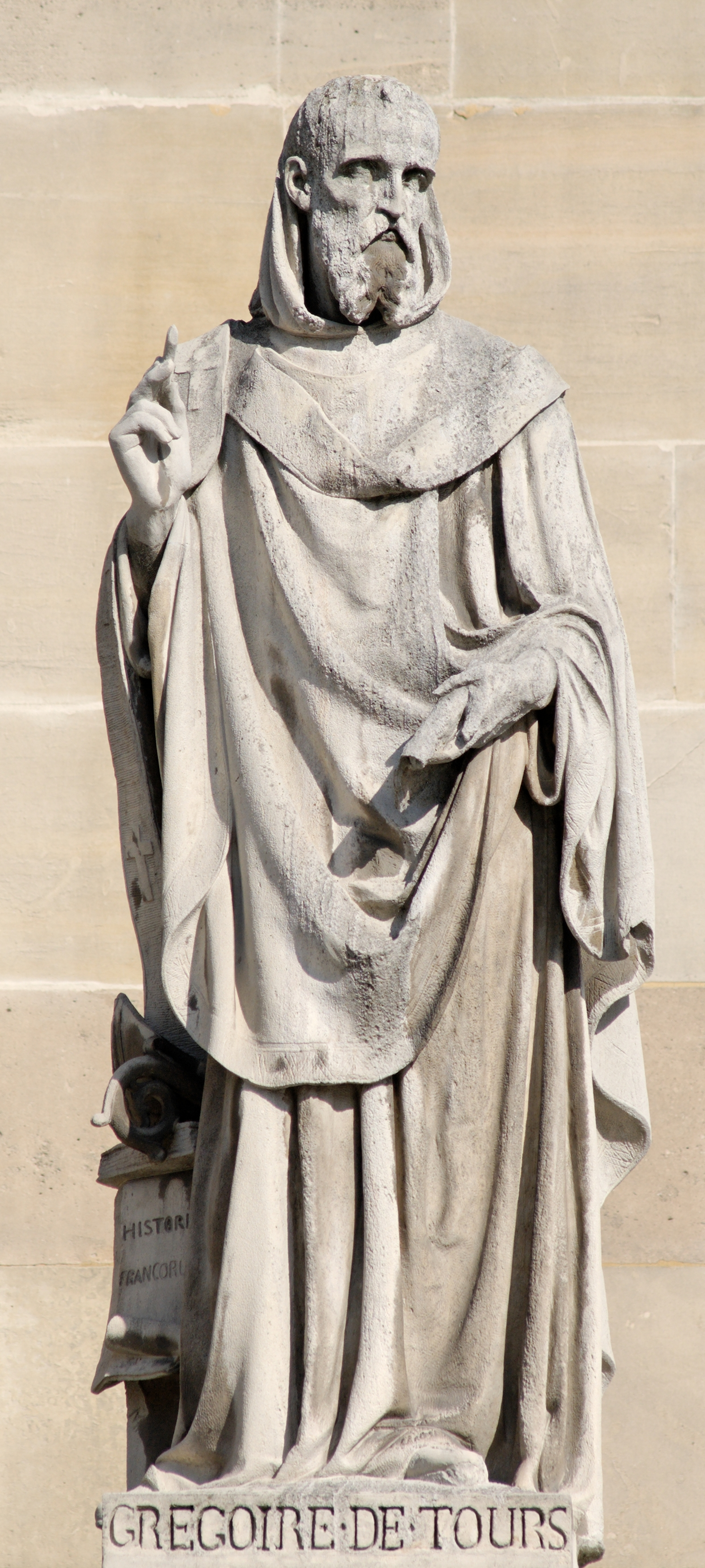 Gregory of Tours by Jean Marcellin. Stone, before 1853. 1st statue from Pavillon Turgot to Pavillon Richelieu, Cour Napoléon in the Louvre.